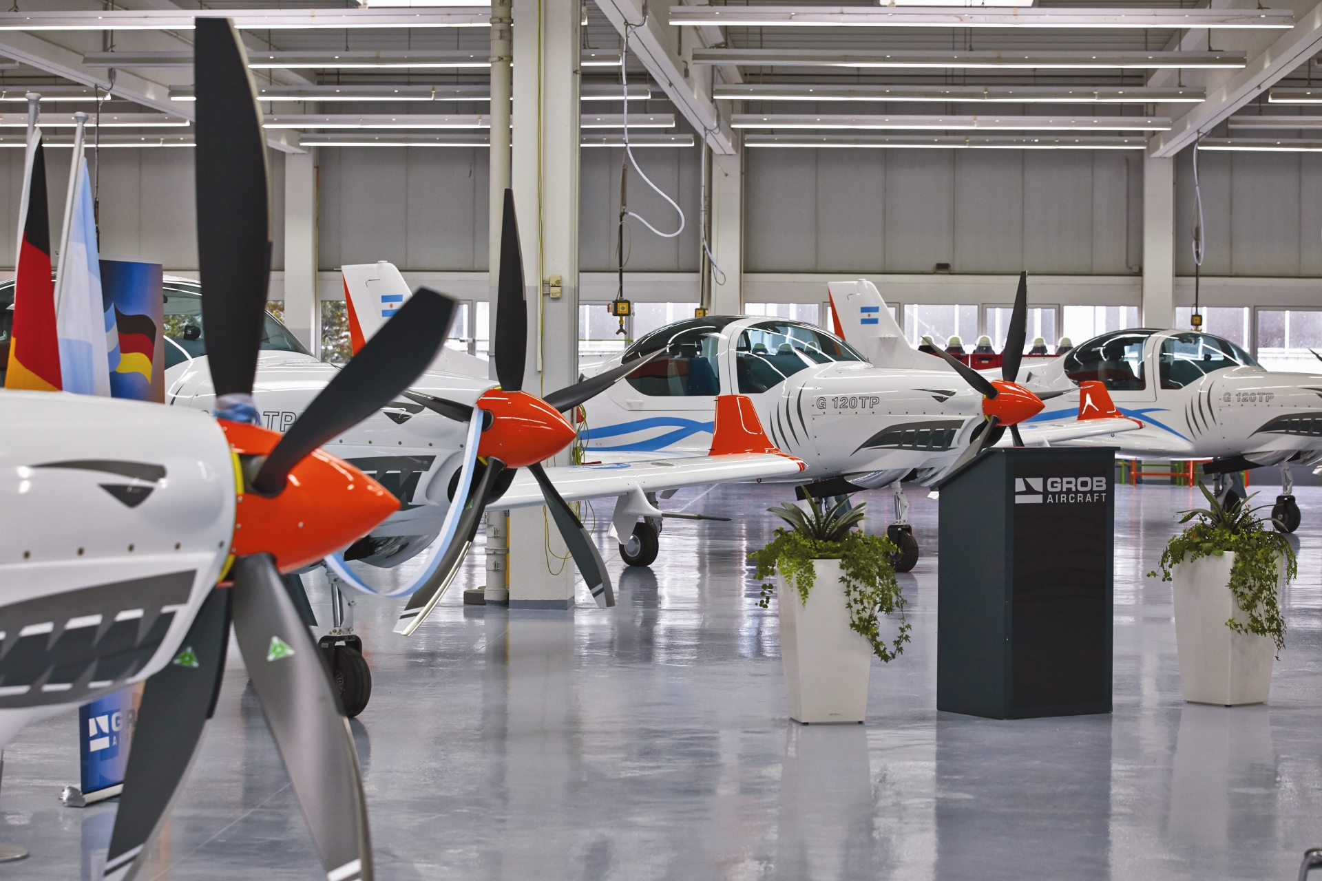 Ceremonial handover of the first batch of four G 120TP (10 ordered, plus 5 on option) to Argentina.